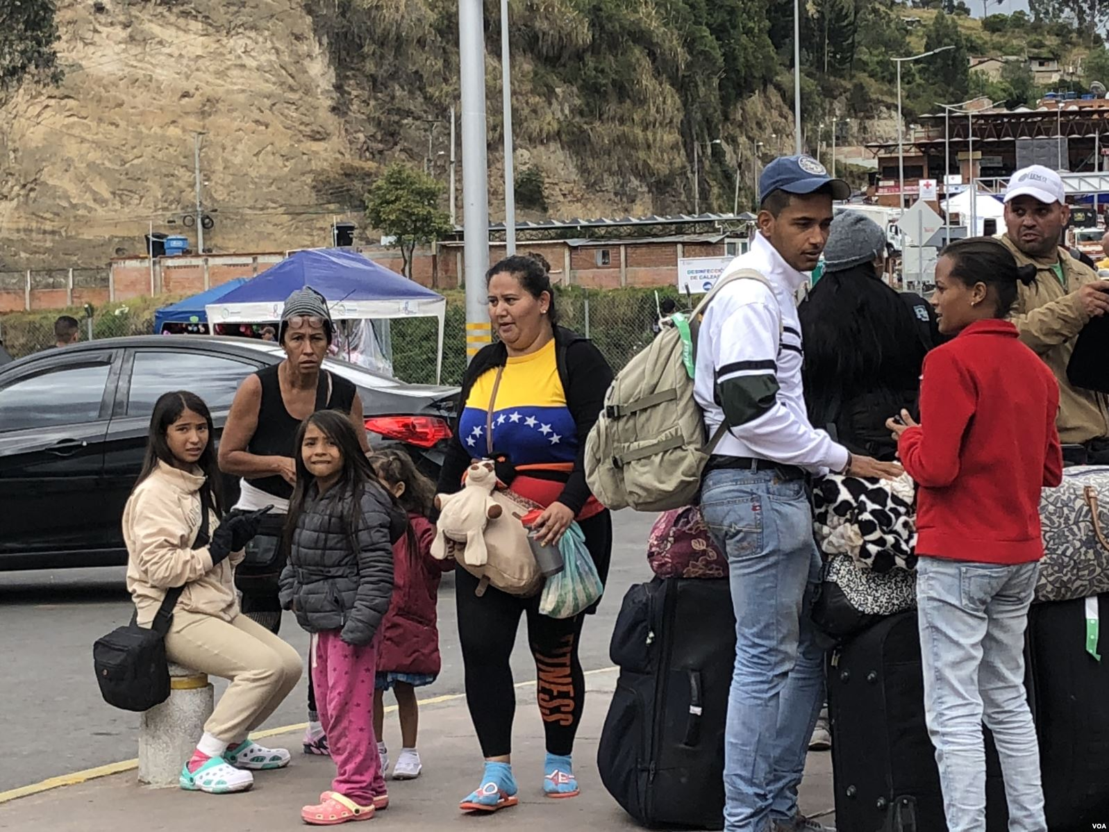 Venezuelans cross the border between Ecuador and Colombia in search of new opportunities.